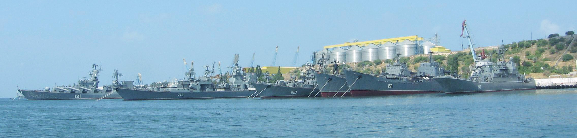 Major ships of the Soviet and Russian Black Sea Fleet in Sevastopol. Farthermost to nearest: Guard Missile Cruiser Moskva (as of 2007 flagship of the Russian Black Sea Fleet, pennant number 121, built in 1983) Large ASW Destroyer Kerch (pennant number 713, built in 1974) Large ASW Destroyer Smetlivyy (pennant number 810, built in 1966) Large Landing Ship Nikolay Filchenkov (pennant number 152, built in 1975) Large Landing Ship Saratov (pennant number 150, built in 1966) Large Landing Ship Novocherkassk (pennant number 142)